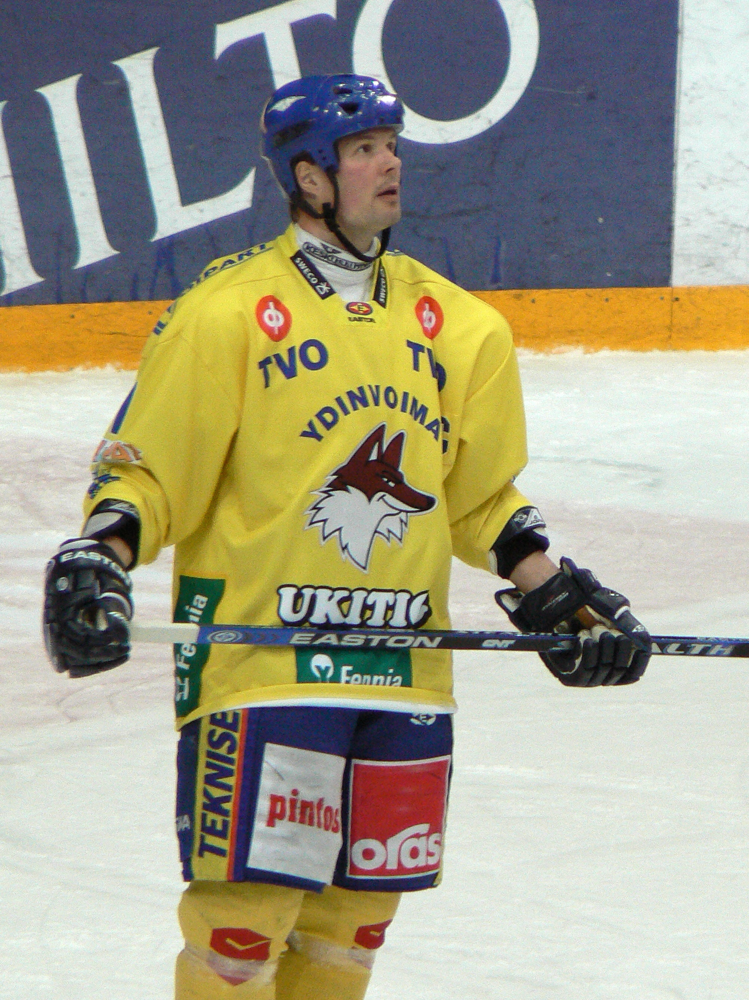 Finnish ice hockey defenseman Erik Hämäläinen of Lukko Rauma in his 1001st (and last) SM-liiga regular season game in March 2008.